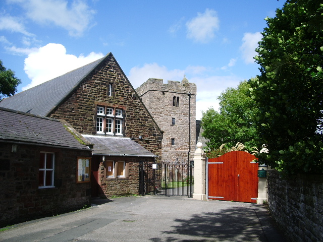 Entrance to St Mungo's Church, near to Dearham, Cumbria, Great Britain. The building on the left is the church hall and the bright brown gates are to The Vicarage